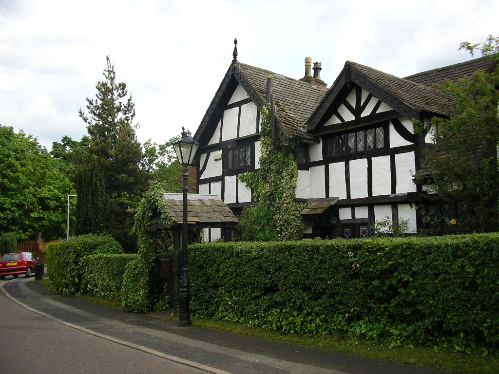 Photograph of Moseley Old Hall, Cheadle in Greater Manchester, England.